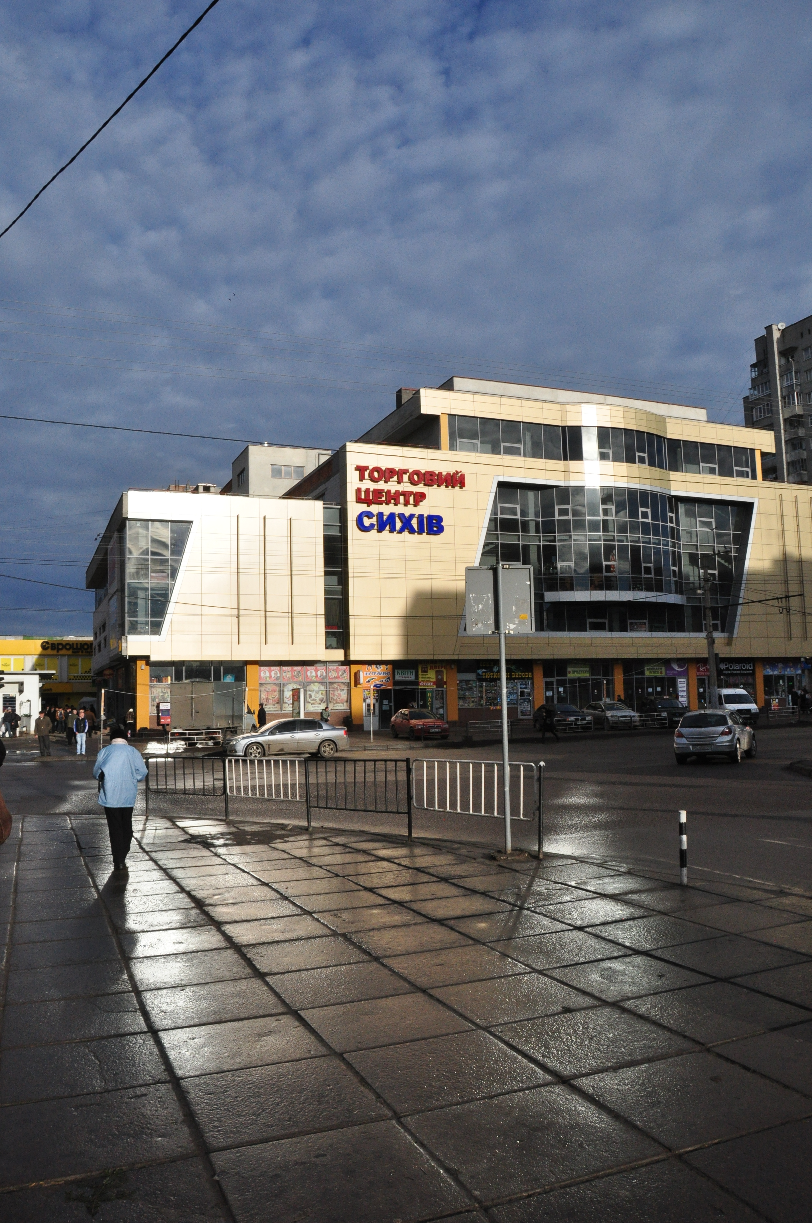 Sychiv Shoping Centre on the Sychivska Street (crossing with Kavaleridze Street) in Lviv